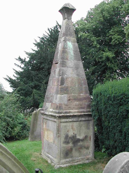 The "Henry Jenkins Memorial" In the churchyard at Bolton On Swale is this memorial of Old Henry, reputed to be 169 when he died.